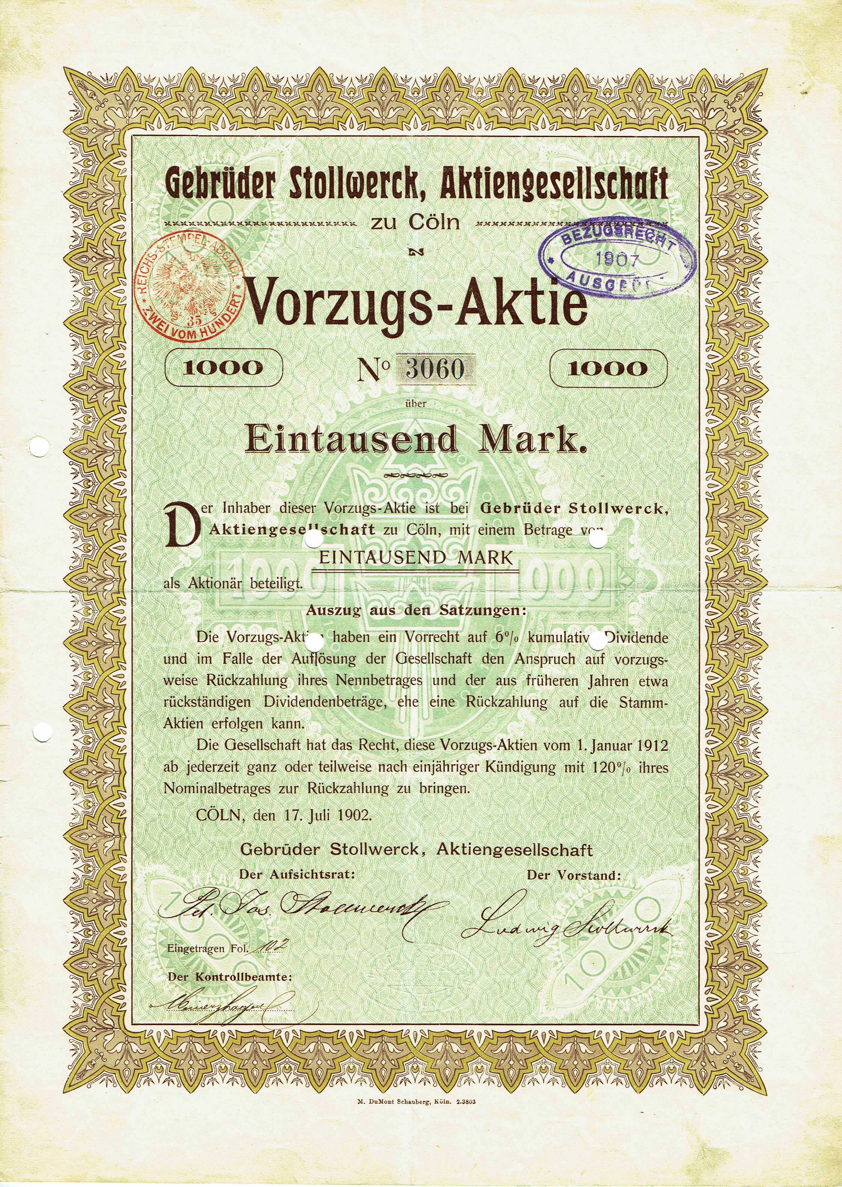 Preferred share of the Gebrüder Stollwerck AG, issued 17. July 1902